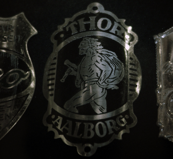 An early 20th century bicycle head badge featuring a central depiction of Thor (clearly based off of a work by Lorenz Frølich (1820–1908); compare File:Thor wades while the æsir ride by Frølich.jpg), above which reads "Thor", and, below the depiction, "Aalborg", a city in northern Jutland, Denmark. Shot with an infra-red lens due to low light, then edited with photo editing software. The headbadge was on display with various other headbadges at a temporary bicycle exhibition in The Old Town, Aarhus, Denmark.